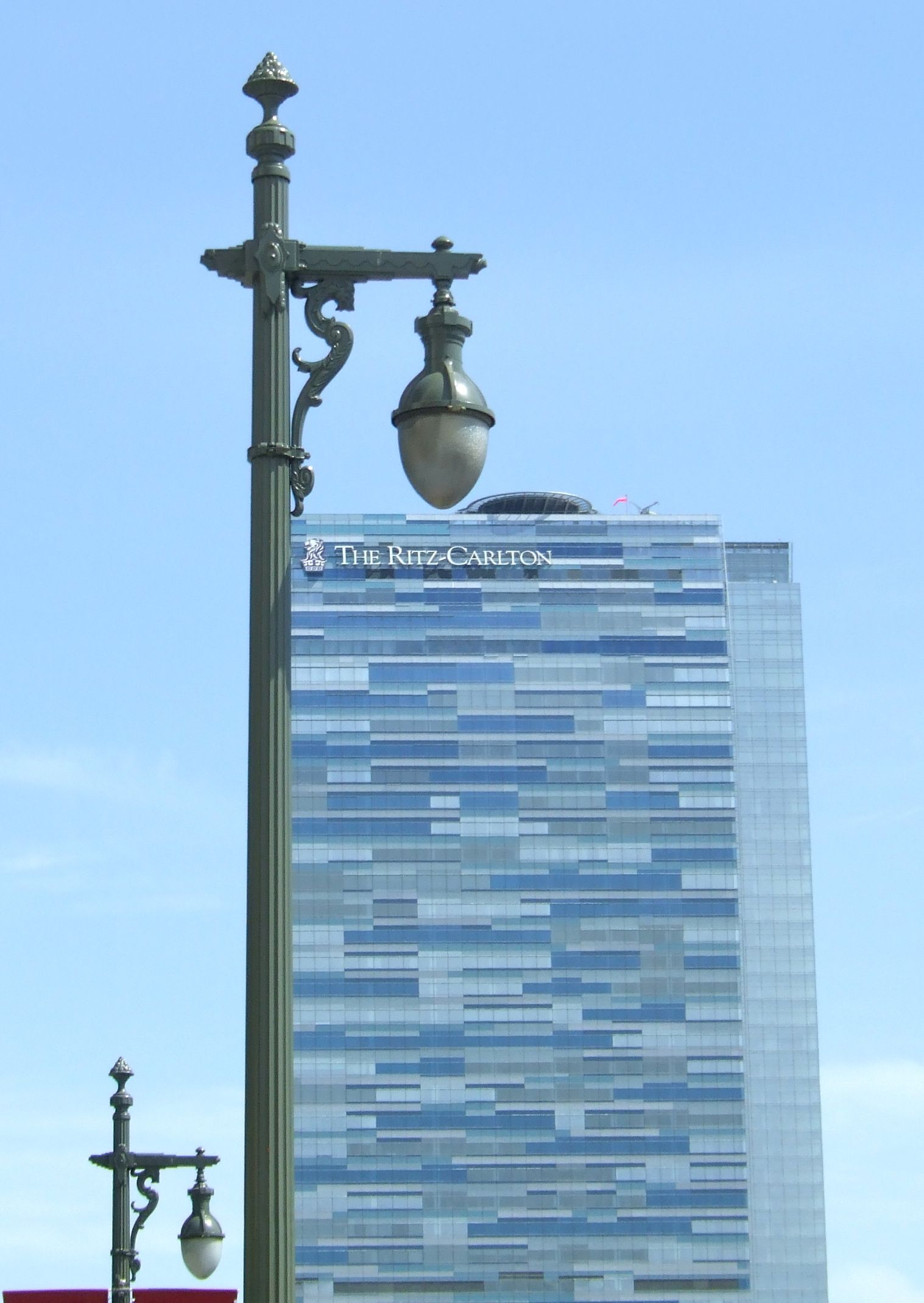 Los Angeles, California, street lamp framing the Ritz-Carlton Hotel Other information Photo by George Garrigues.